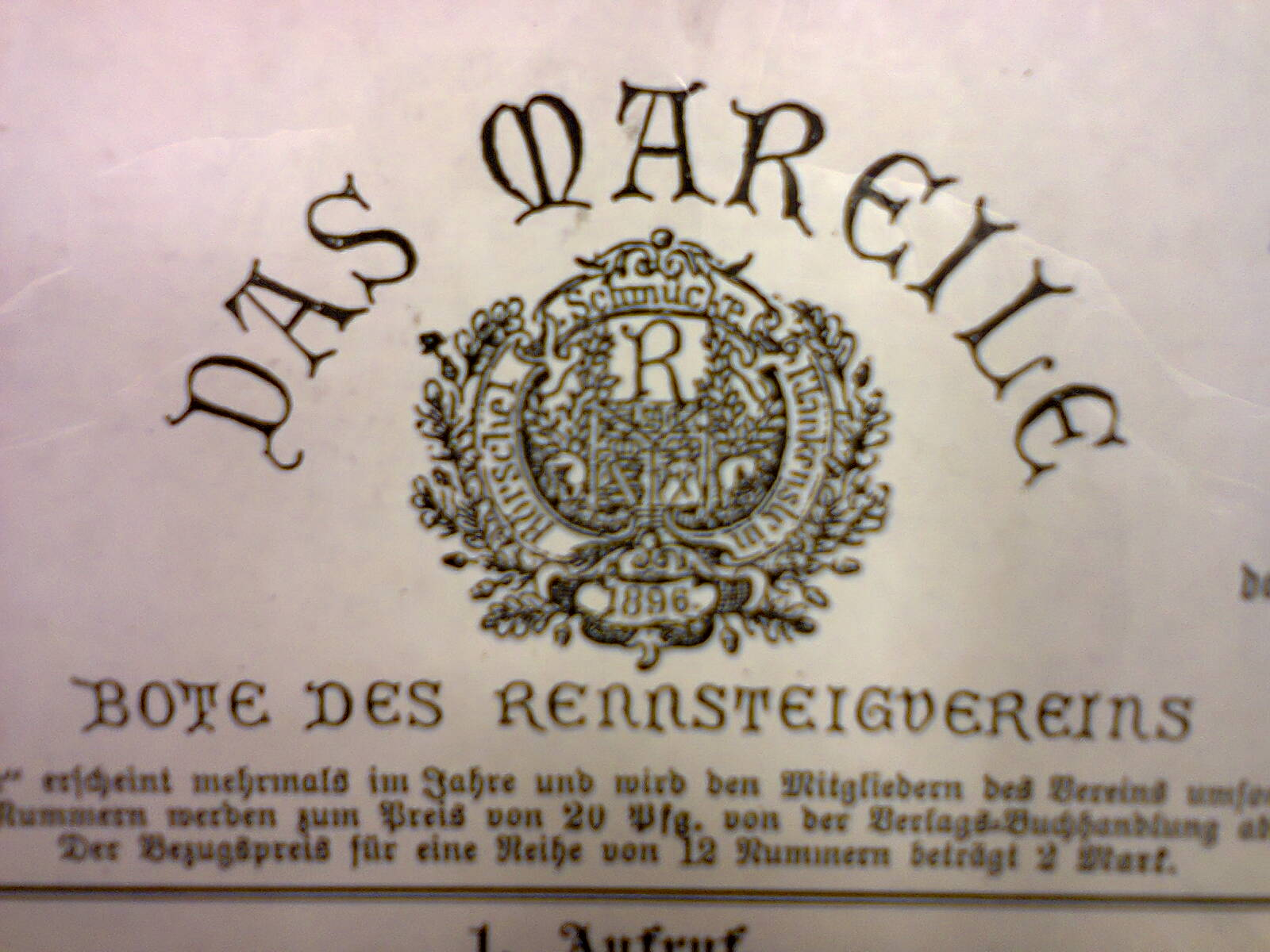 Rennsteigmuseum Neustadt